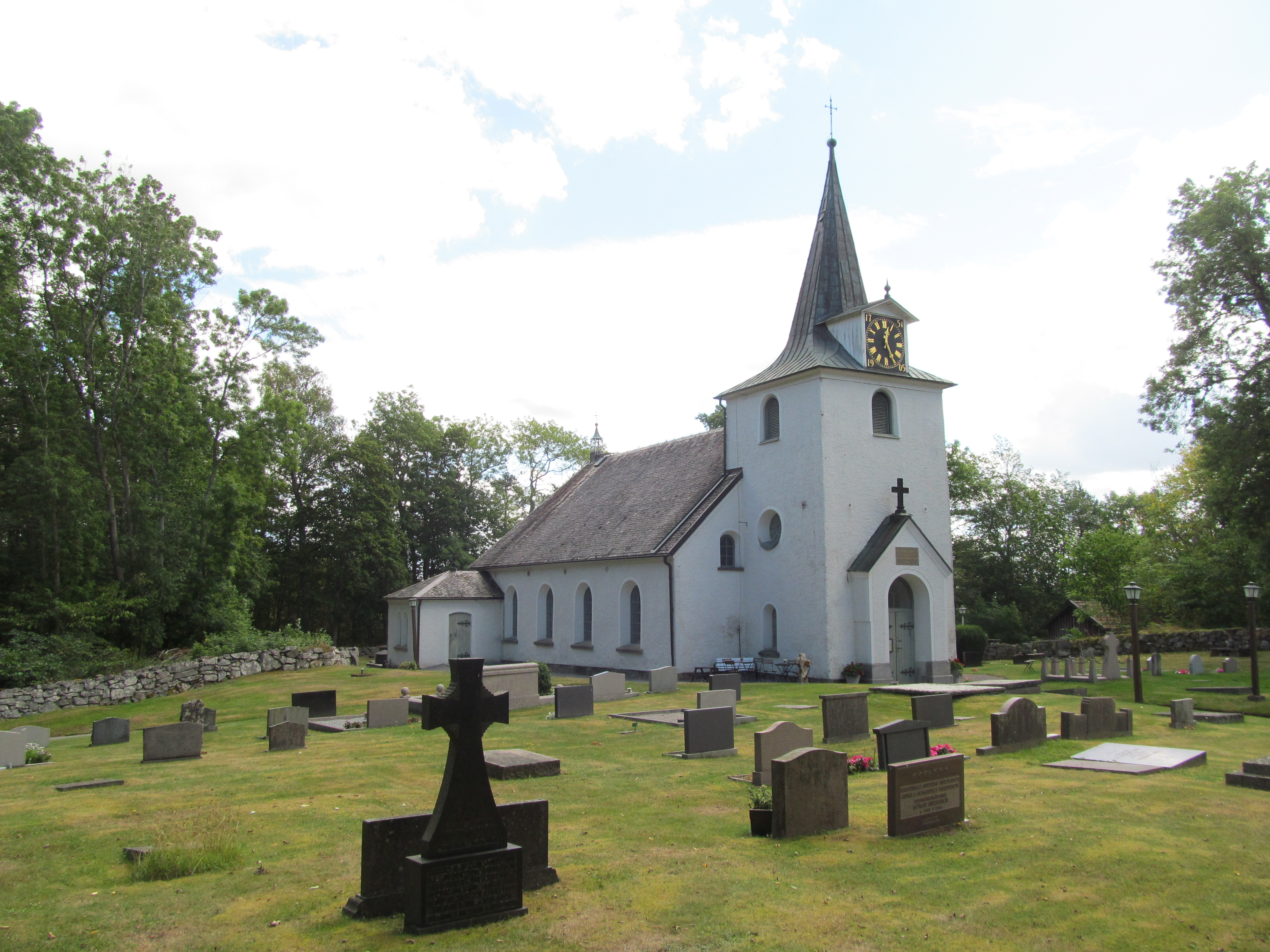 Bäreberg church in Bäreberg Parish, Essunga Municipality, Viste hundred, the Diocese of Skara, Västergötland, Västra Götaland County, Sweden.